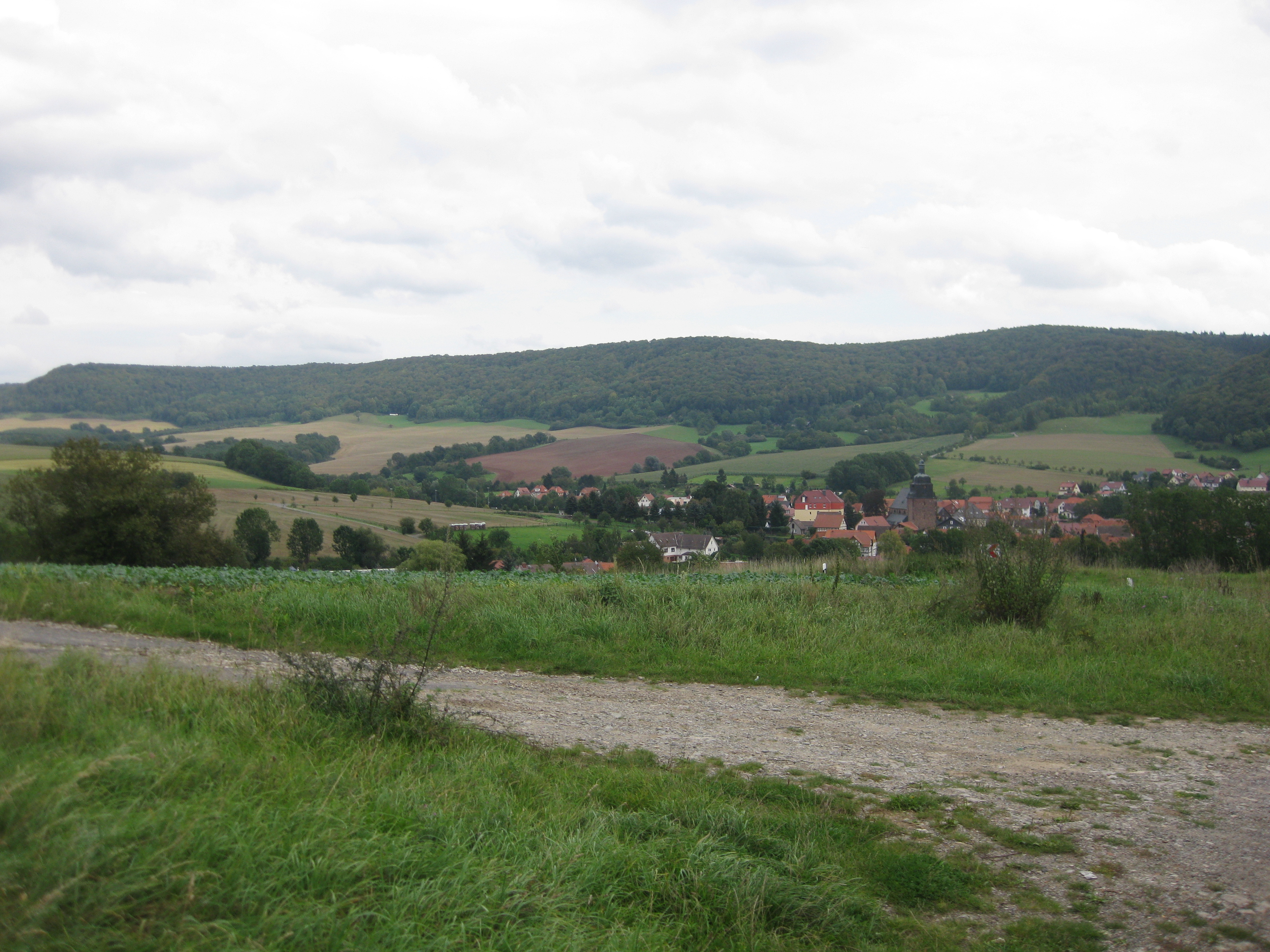 Schimberg (Eichsfelder Westerwald)